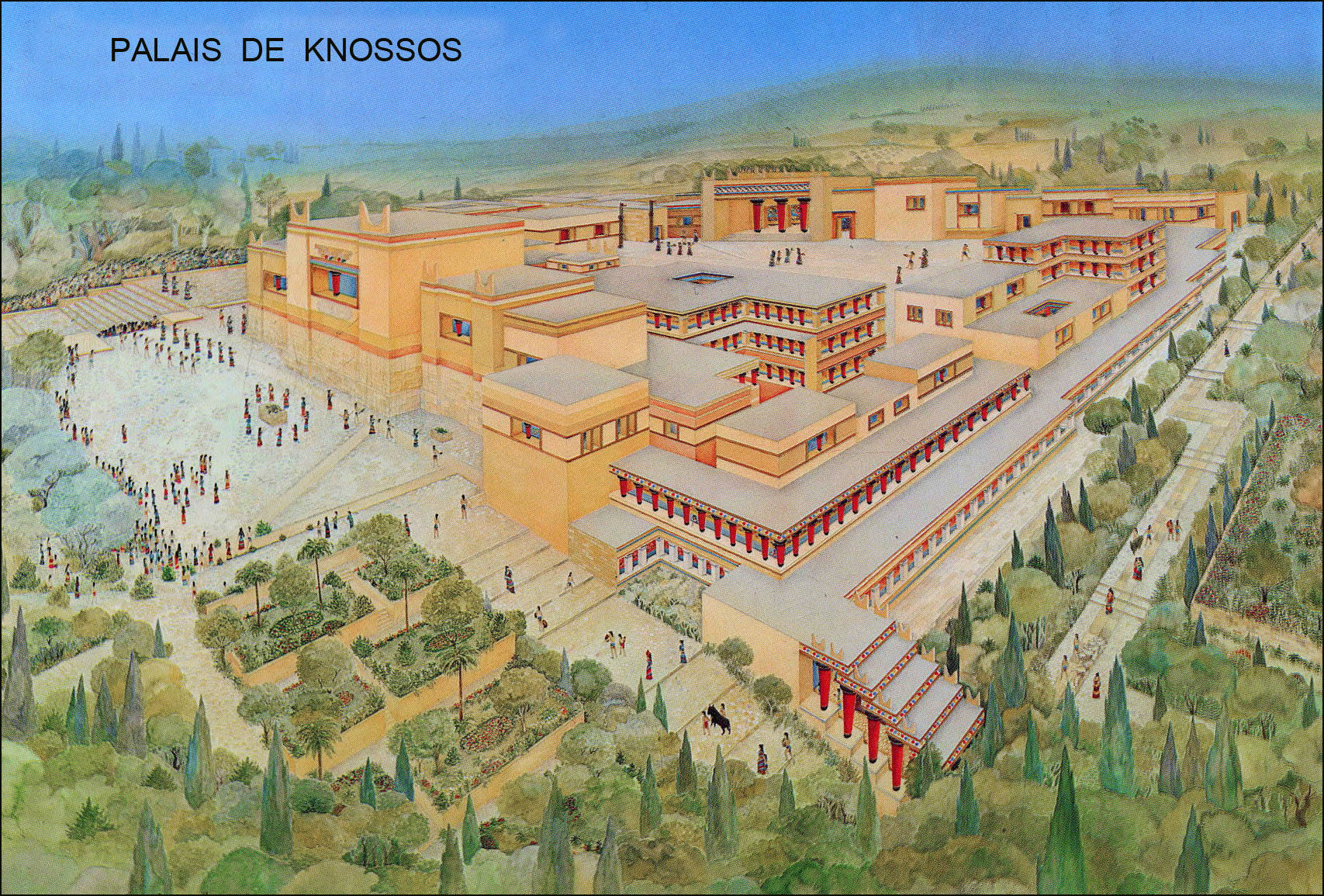 The Palace of Knossos in Crete. Reconstitution.